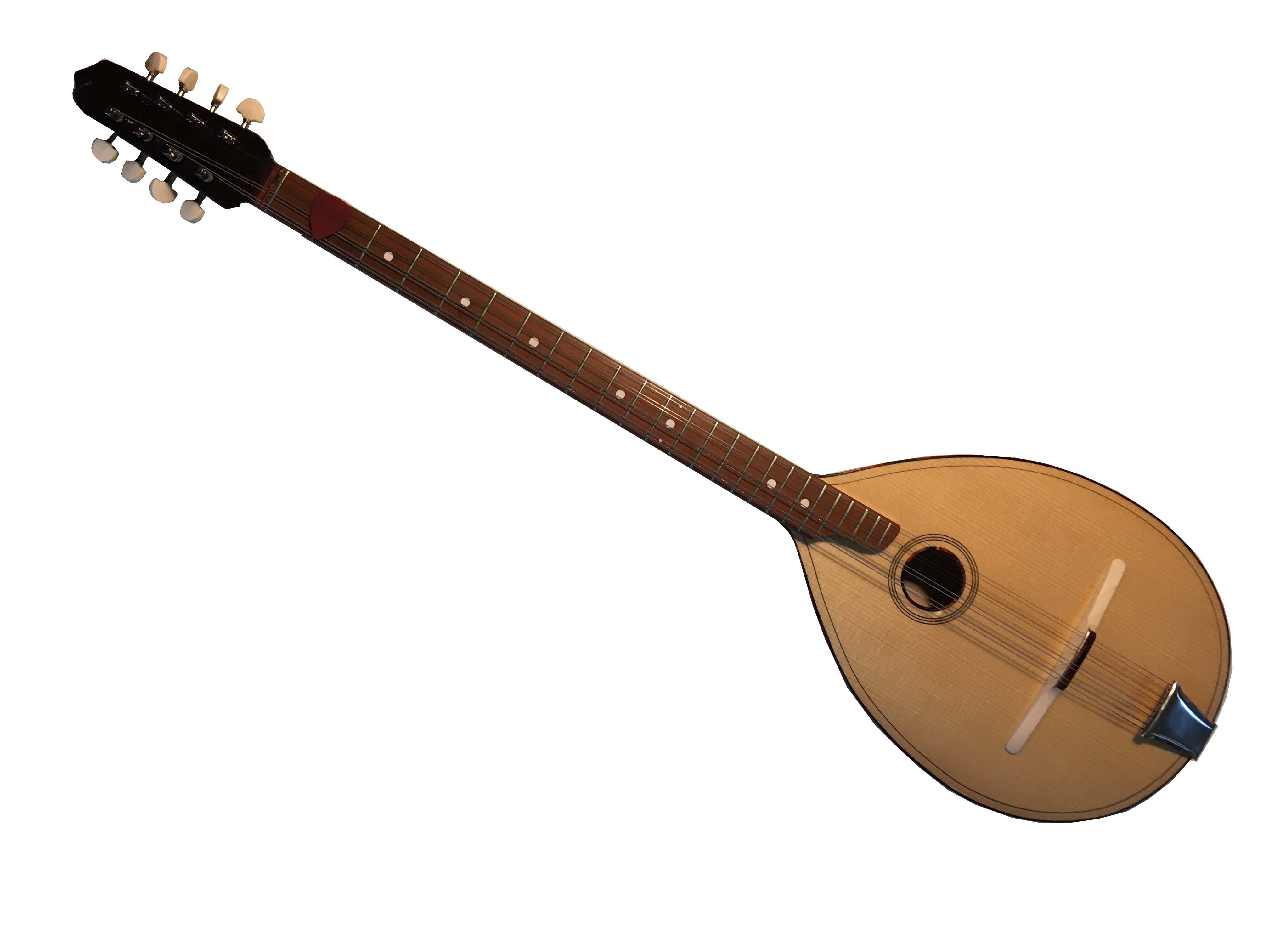 Bulgarian tambura - long necked lute from Bulgaria with 4 double courses of strings tuned D G B E